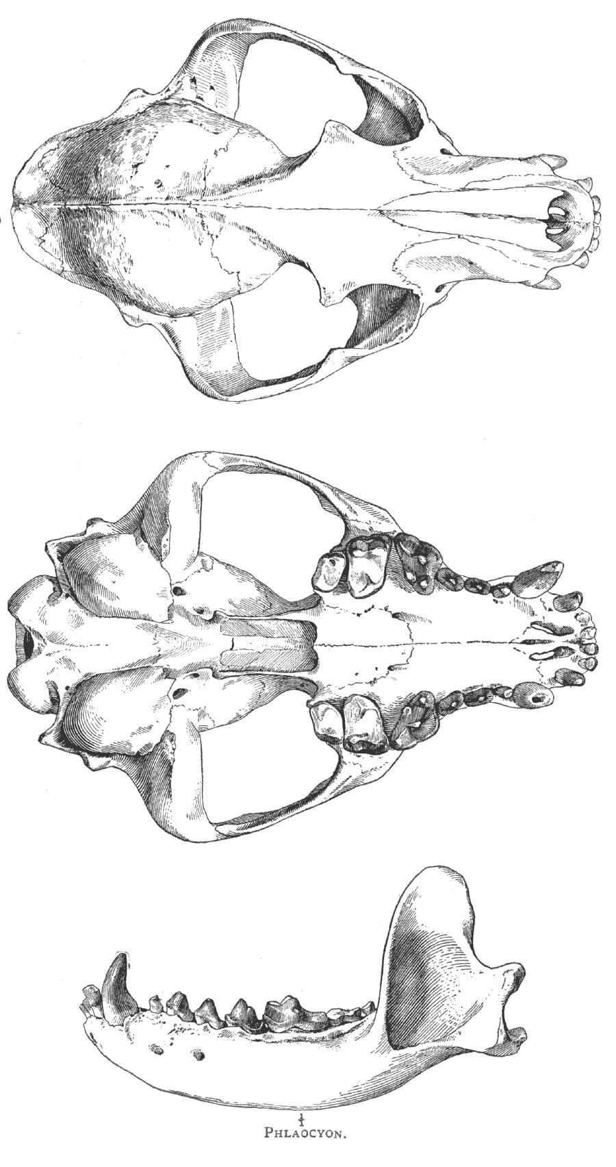 Skull of Phlaocyon, a fossil Canidae.